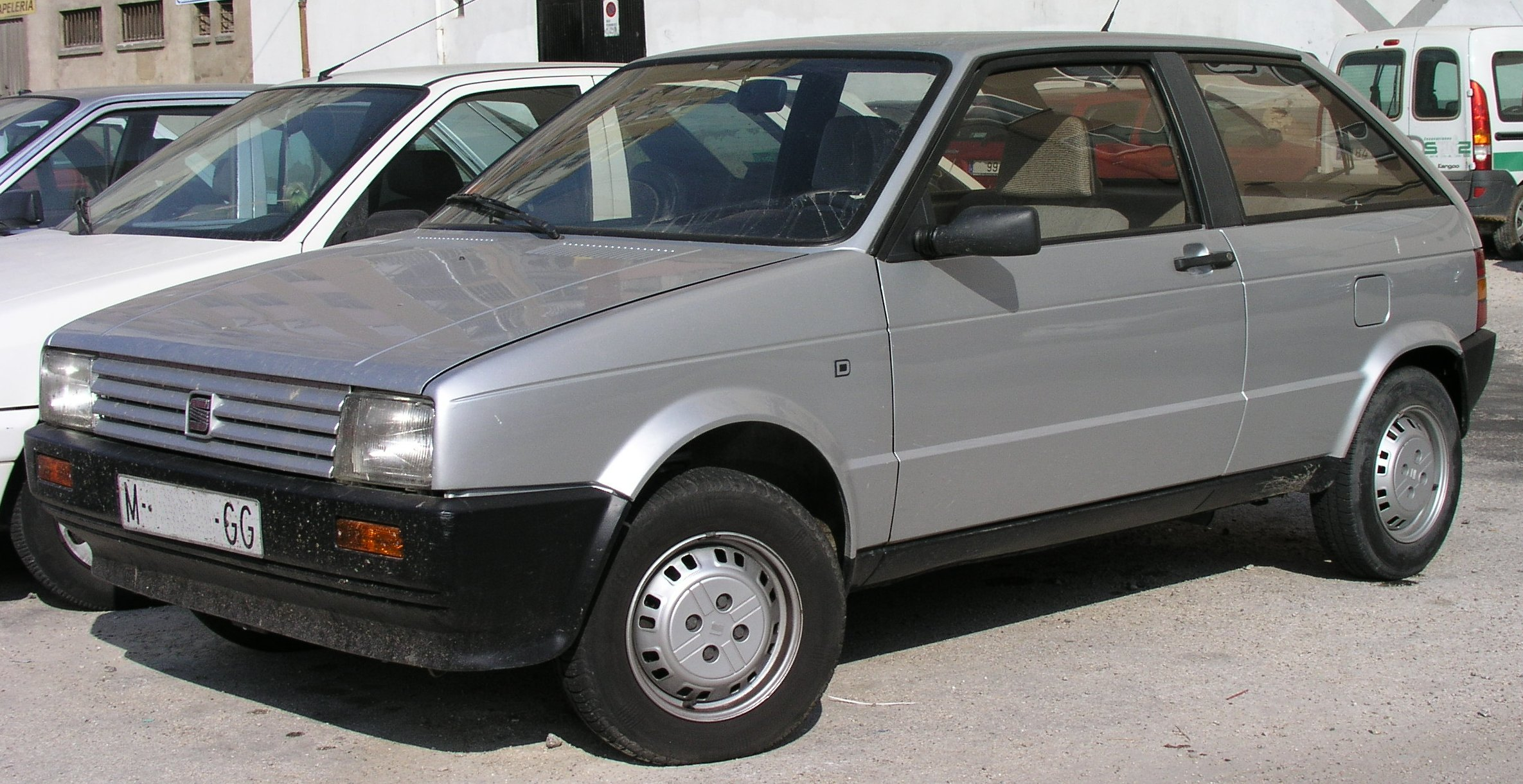 1986 SEAT Ibiza Diesel. Spain, 2006. The grill is from the facelifted Ibiza, not original equipment.